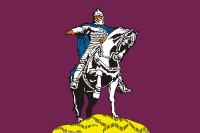 Flag of the Central Administrative District in the city of Moscow, Russia.